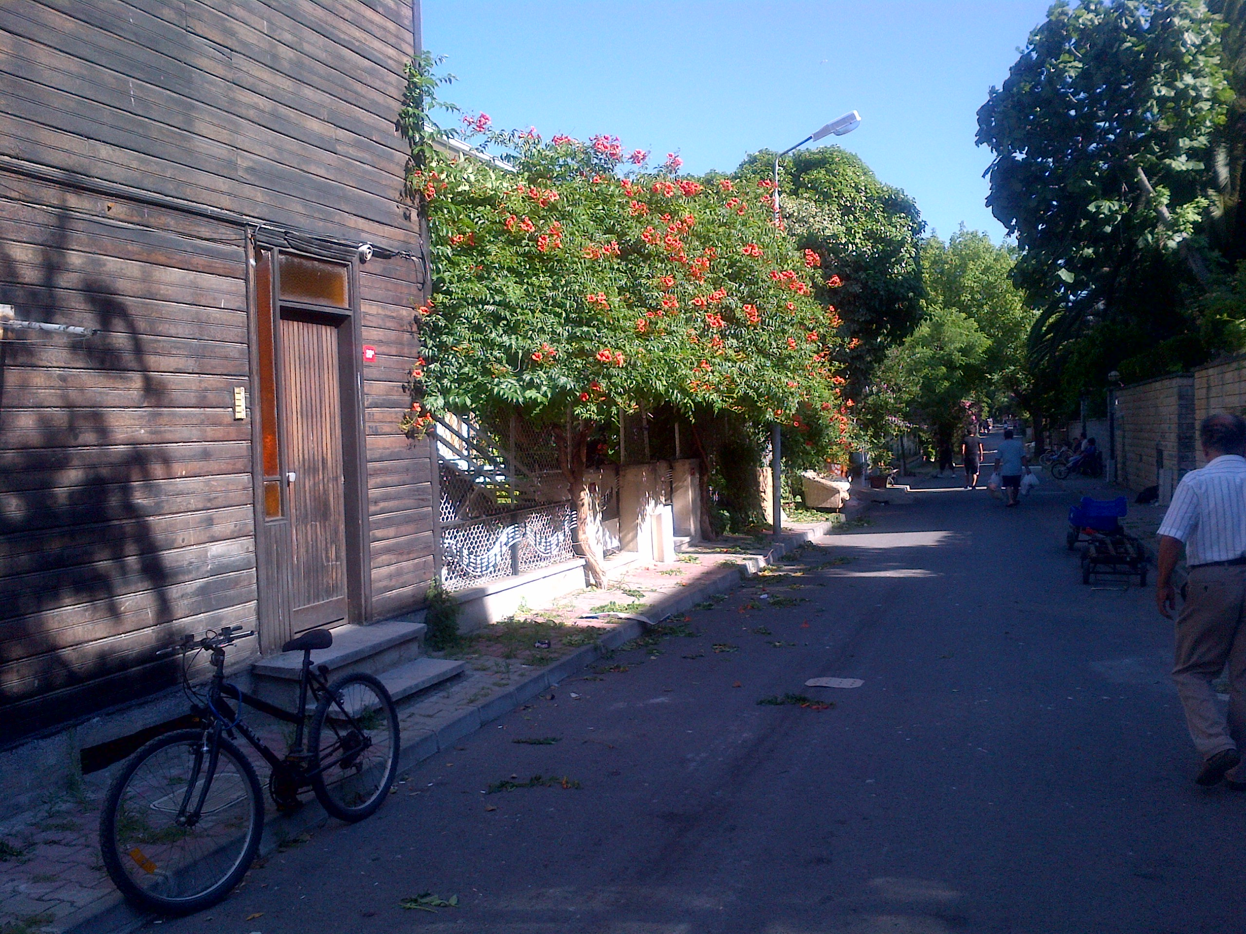 A quiet street in the small Istanbul island of Kınalıada.